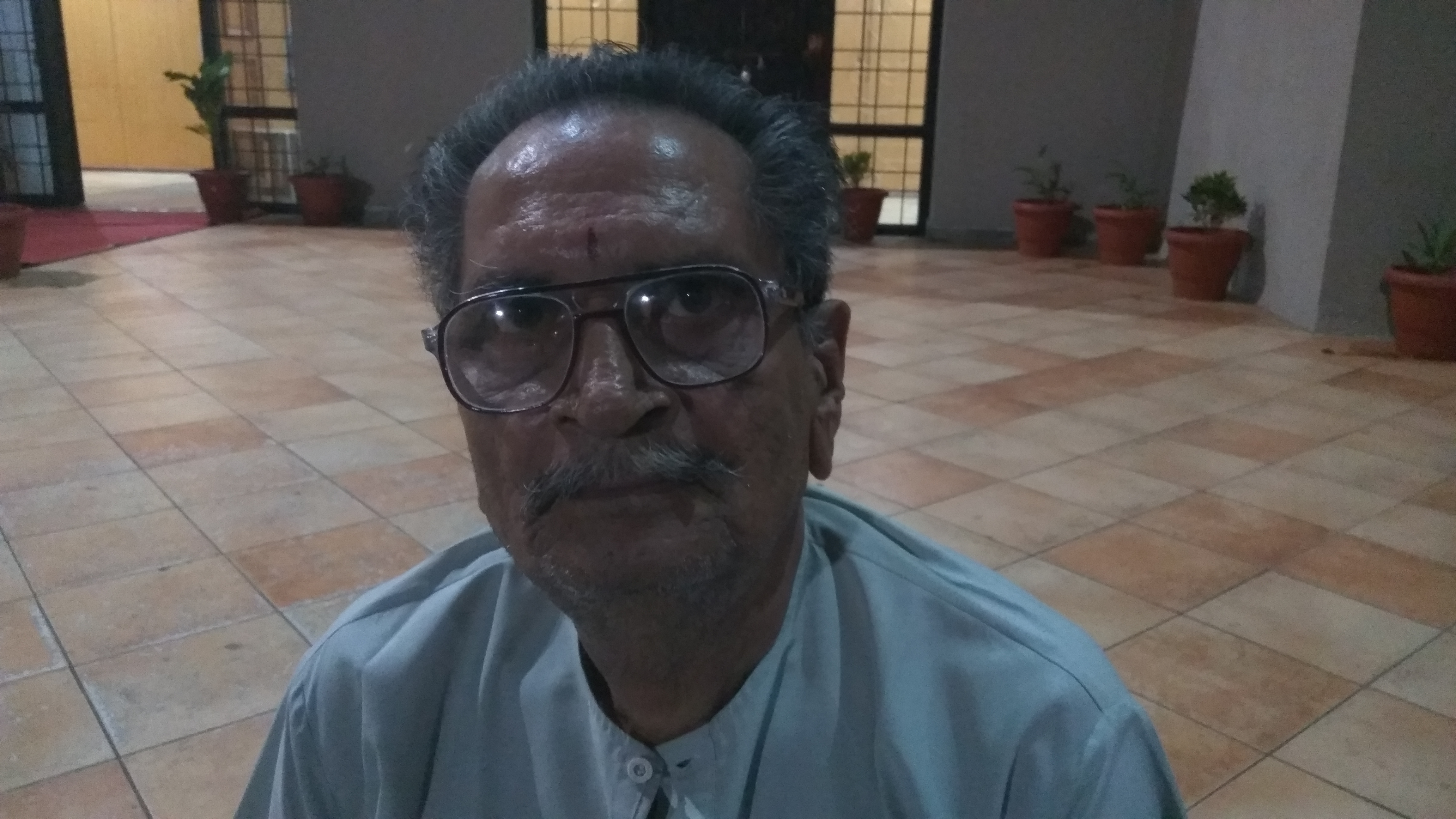 WikiConference India 2016